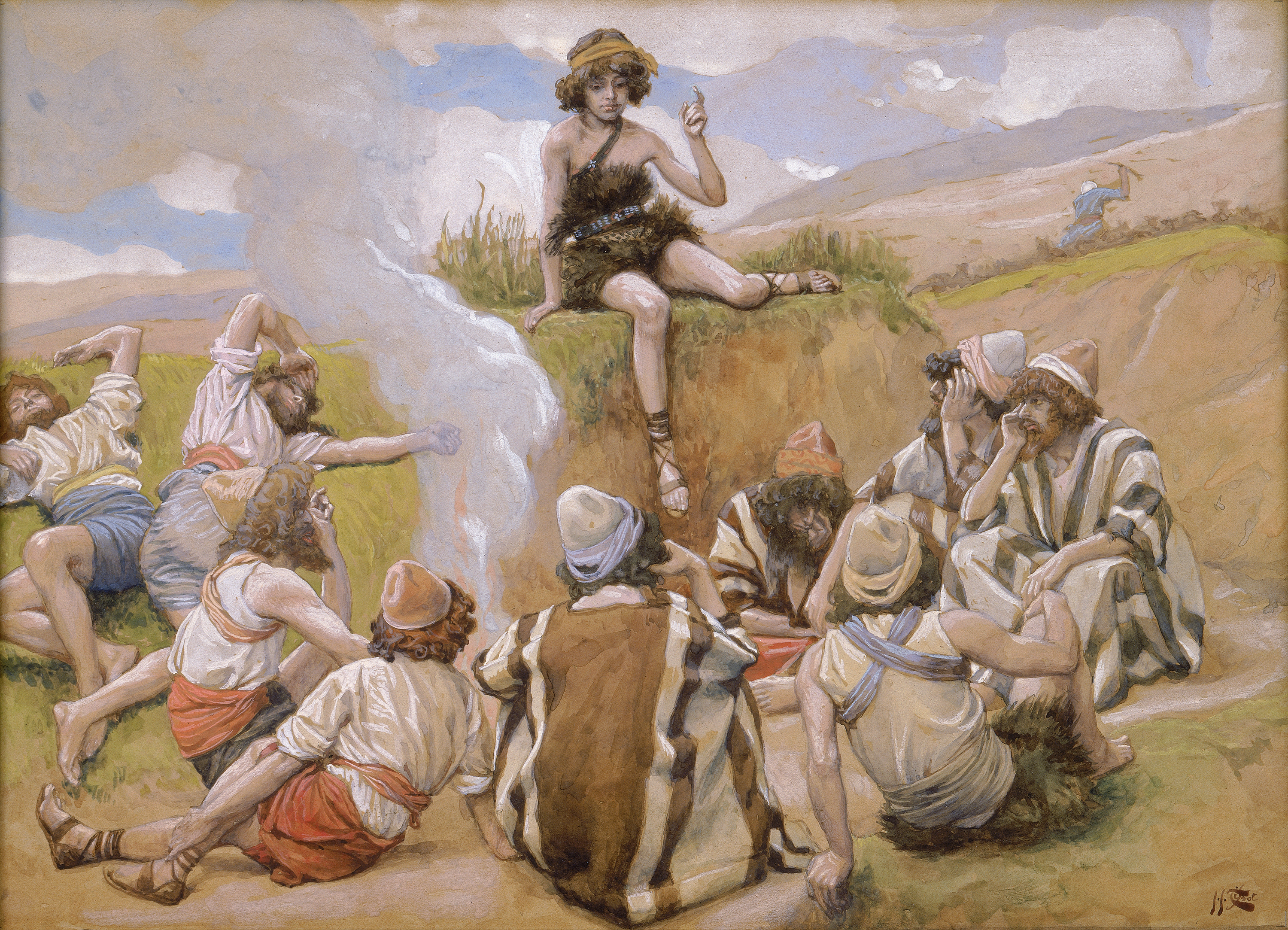 Joseph Reveals His Dream to His Brethren, c. 1896-1902, by James Jacques Joseph Tissot (French, 1836-1902), gouache on board, 8 7/8 x 12 7/16 in. (22.6 x 31.6 cm), at the Jewish Museum, New York